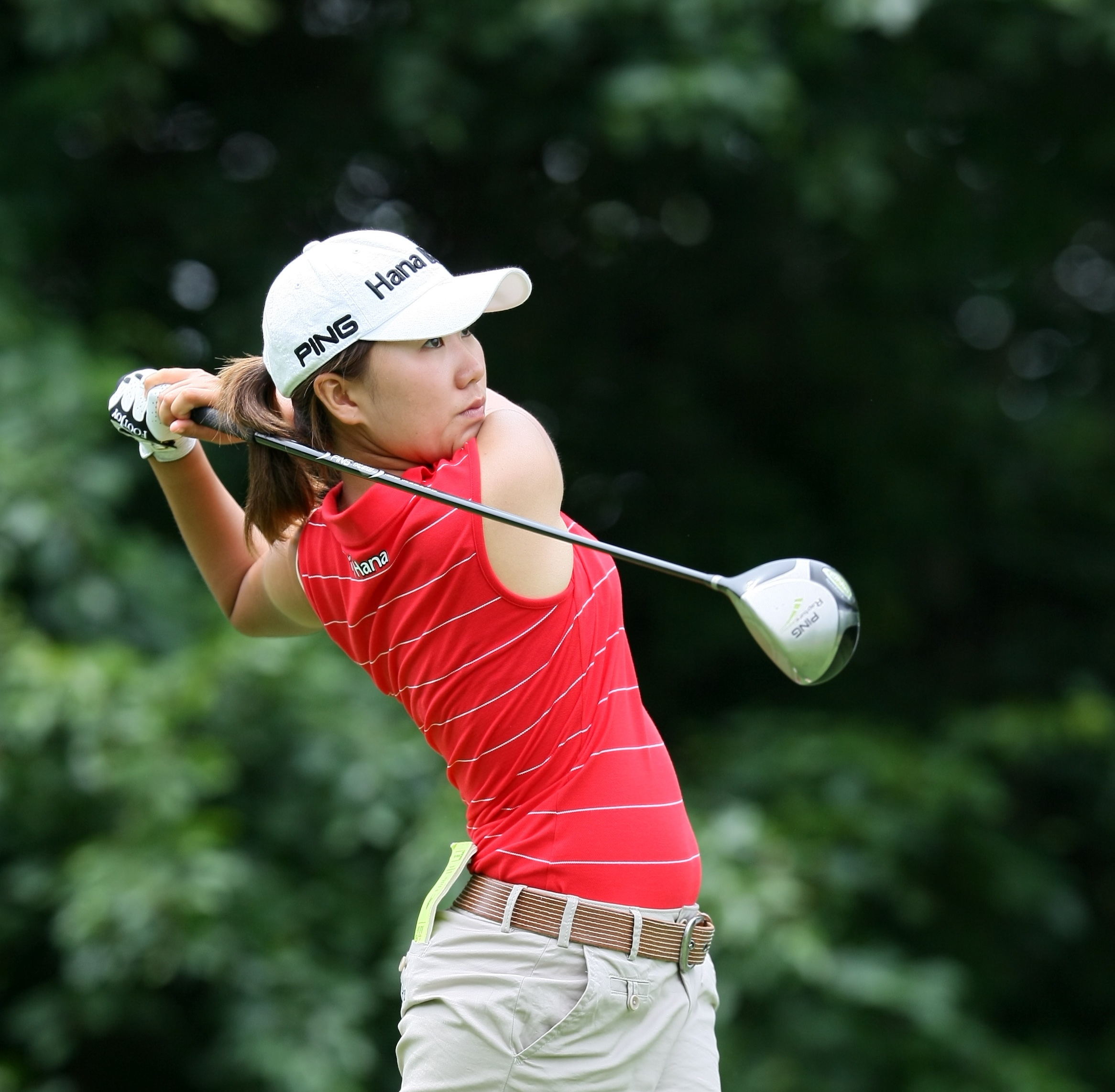 HAVRE DE GRACE, MD - JUNE 09: In-Kyung Kim (KOR) during Pro-Am before 2009 LPGA Championship held at Bulle Rock Golf Course, on June 9, 2009 in Havre de Grace, Maryland. (Photo by Keith Allison)